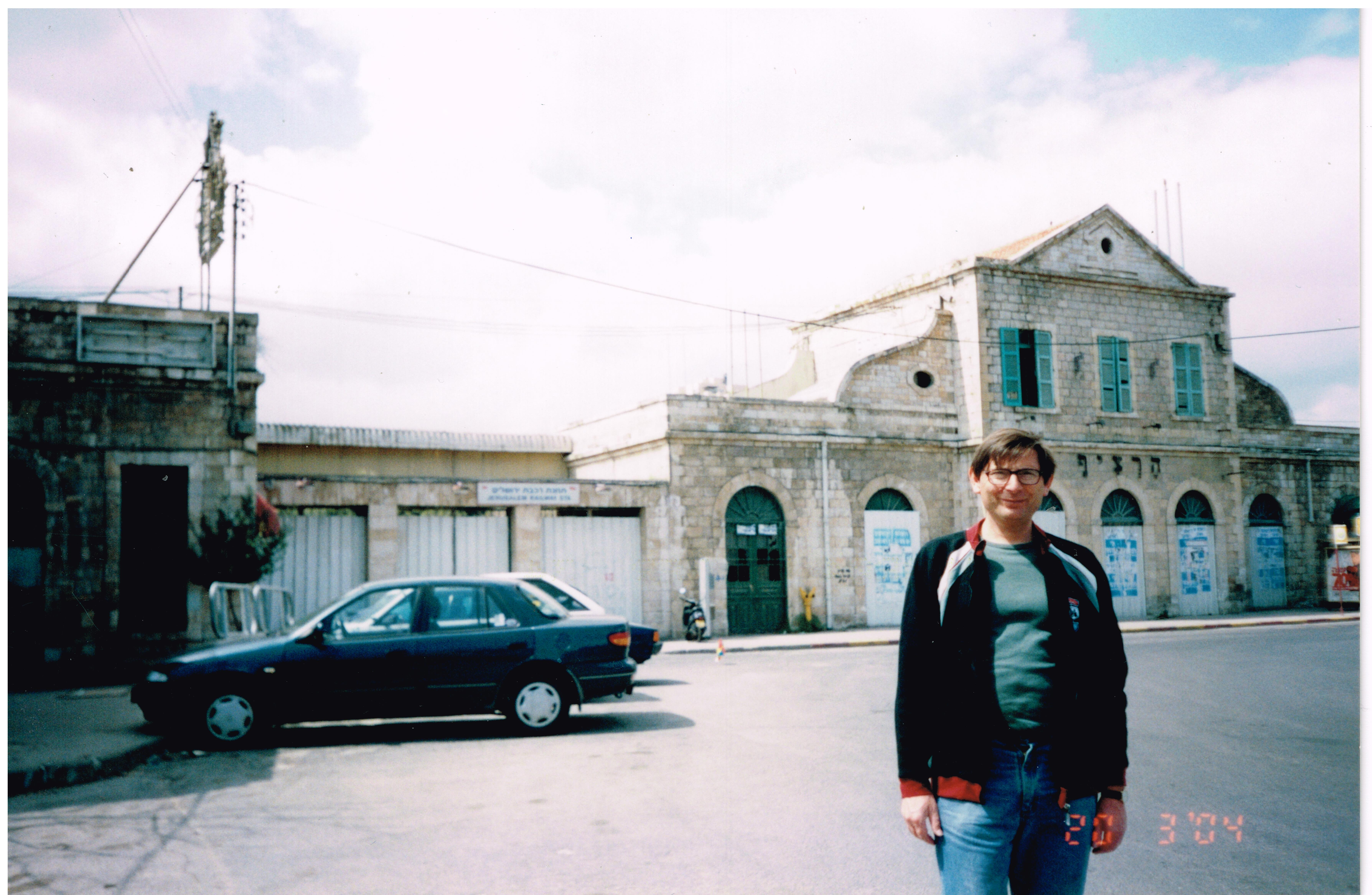 The Jerusalem station when it was abandoned (2004)